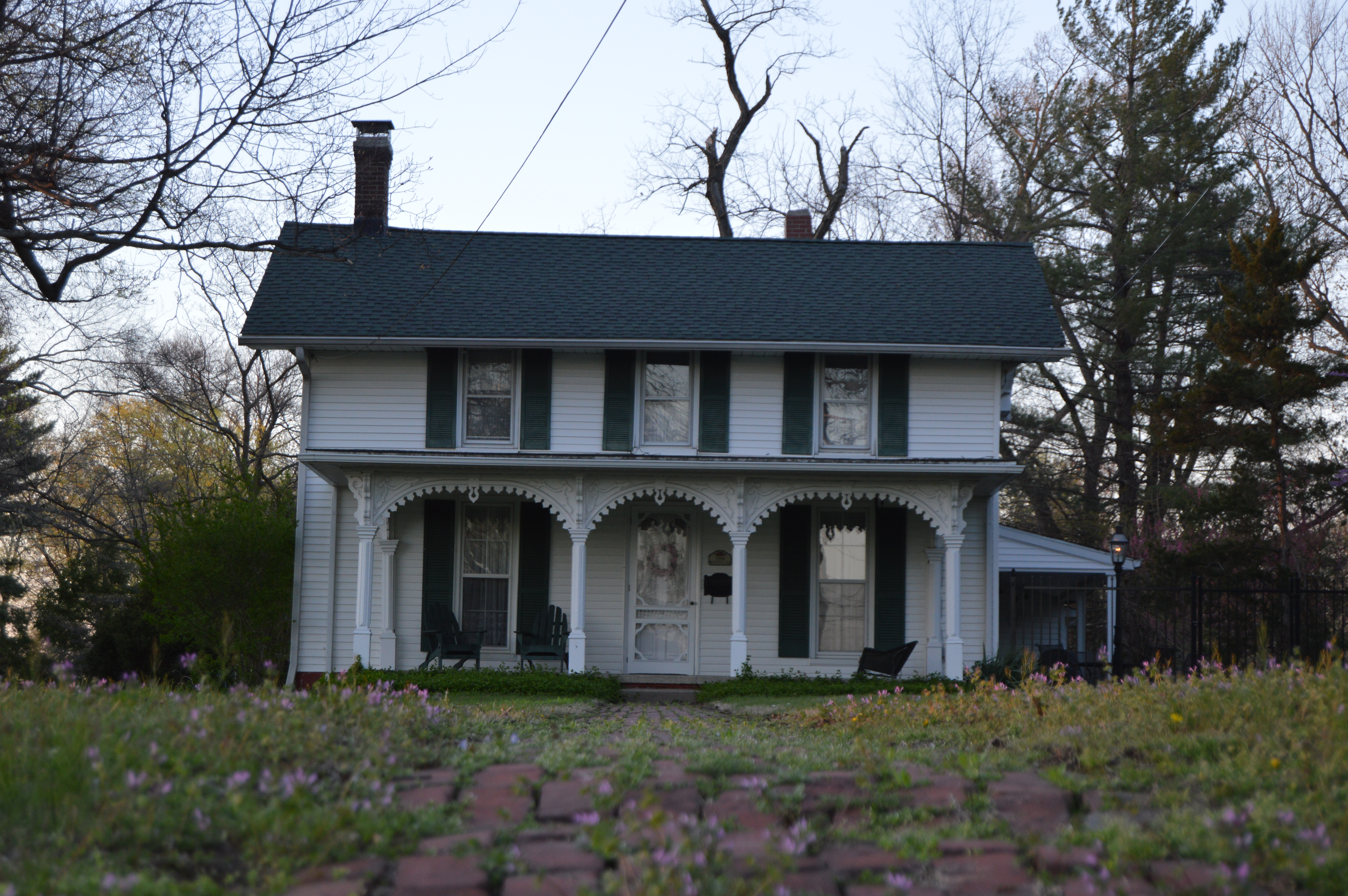 Front of the Thomas Faith House, located at 1208 Bedford Road in Washington, Indiana, United States. Built in 1821, it is listed on the National Register of Historic Places.